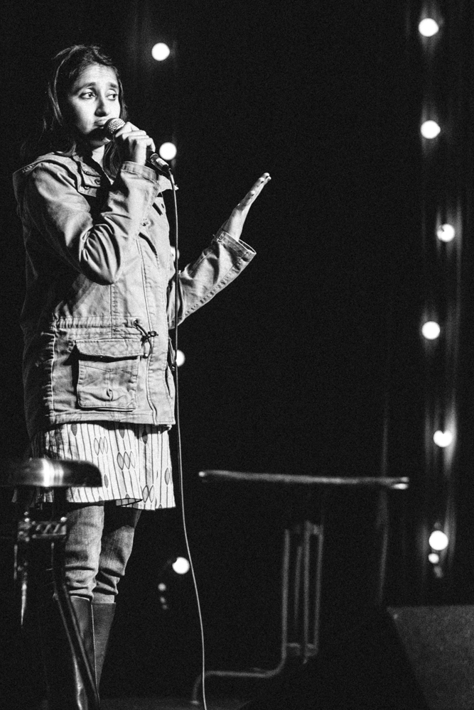 Aparna Nancherla at The Super Serious Show.